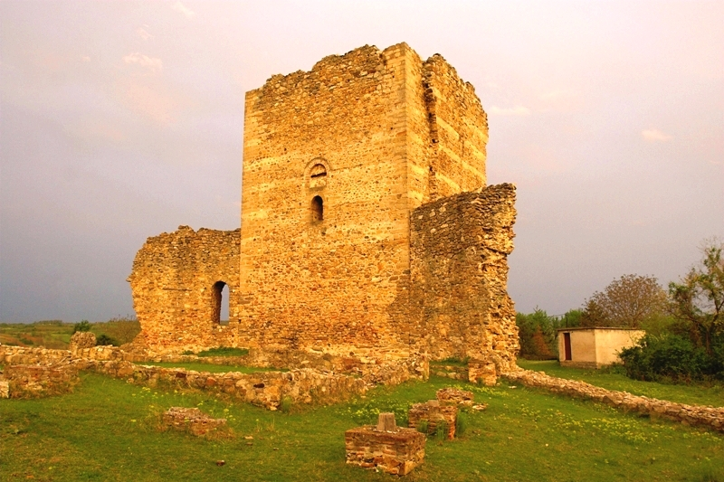 Don Jon Tower of Stalac